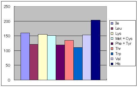 Amino Acid Score of Pork